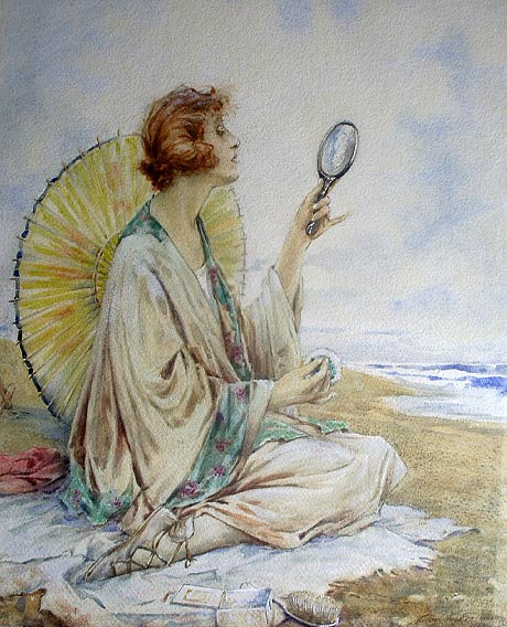 Lovely Lady